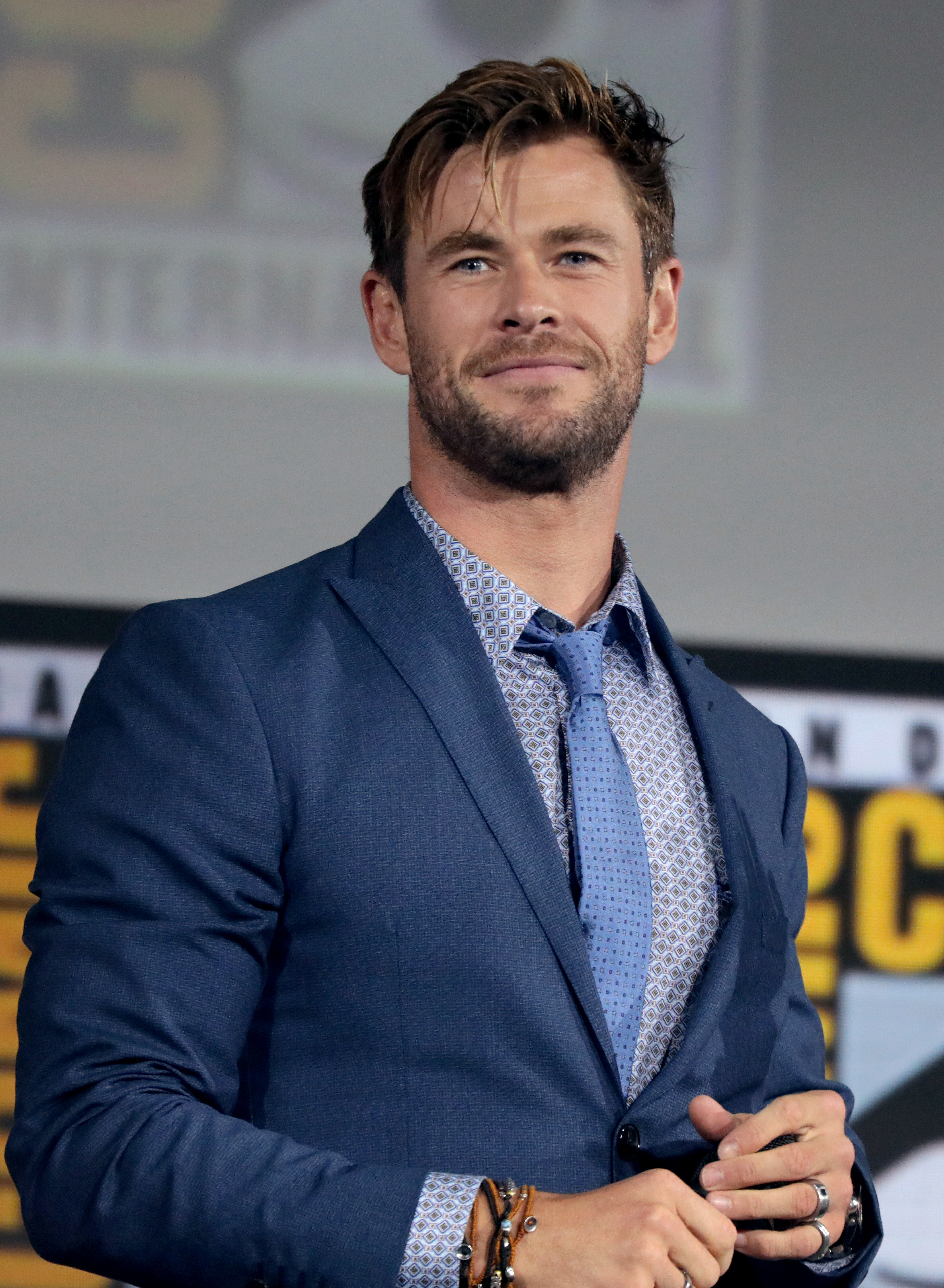 Chris Hemsworth speaking at the 2019 San Diego Comic-Con International in San Diego, California.